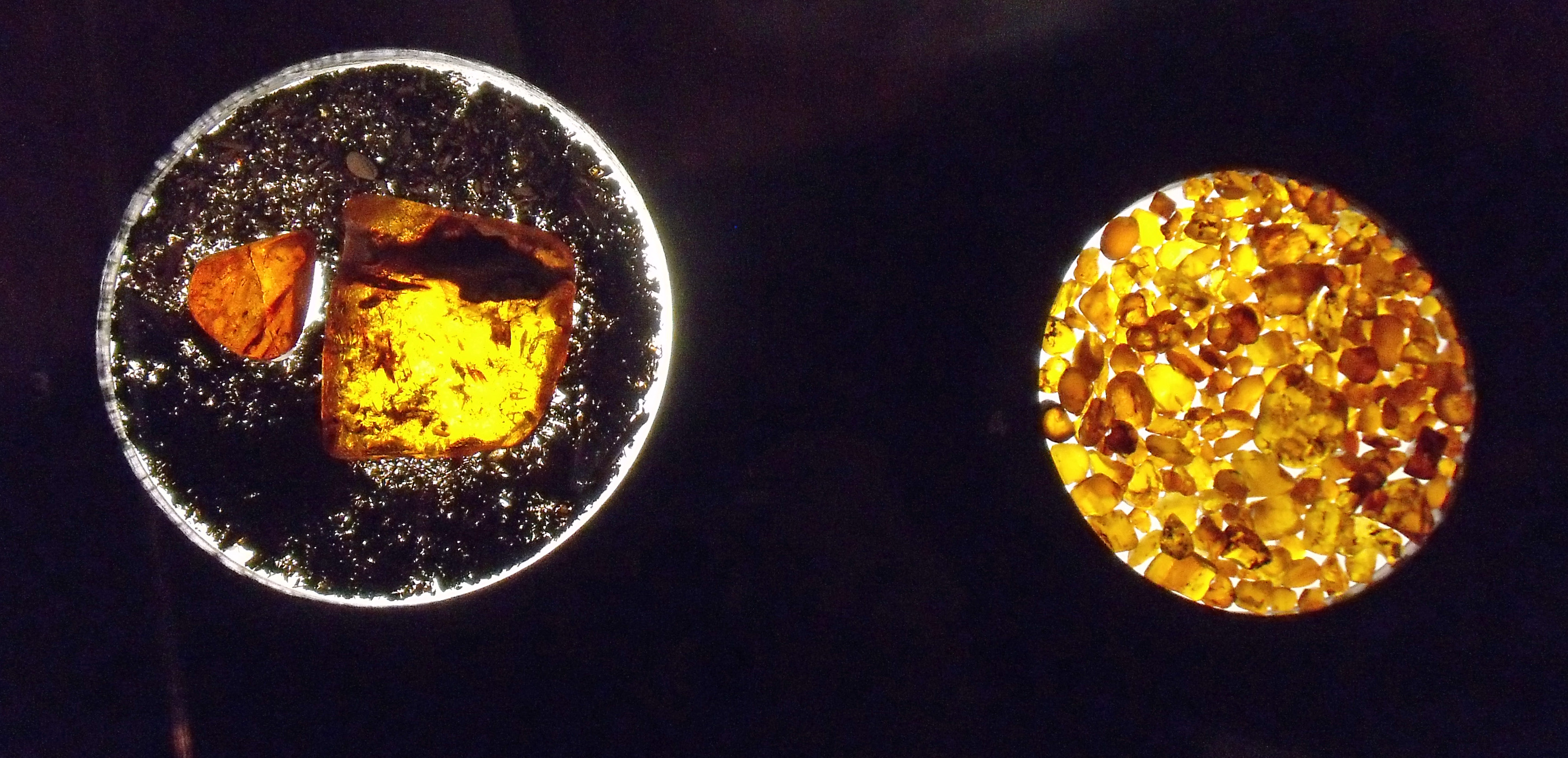 Cedar Lake amber on display at the Manitoba Museum, Winnipeg, Canada. Largest piece is 2 inches! or 5 cm across in with the woody debris when / where typically found. The lot on the right are larger than average. Perhaps one in ten specimens contain insects. Geotagging shows my guess as to the original beach site, submerged for decades by a dam, with some amber now said to be resurfacing.